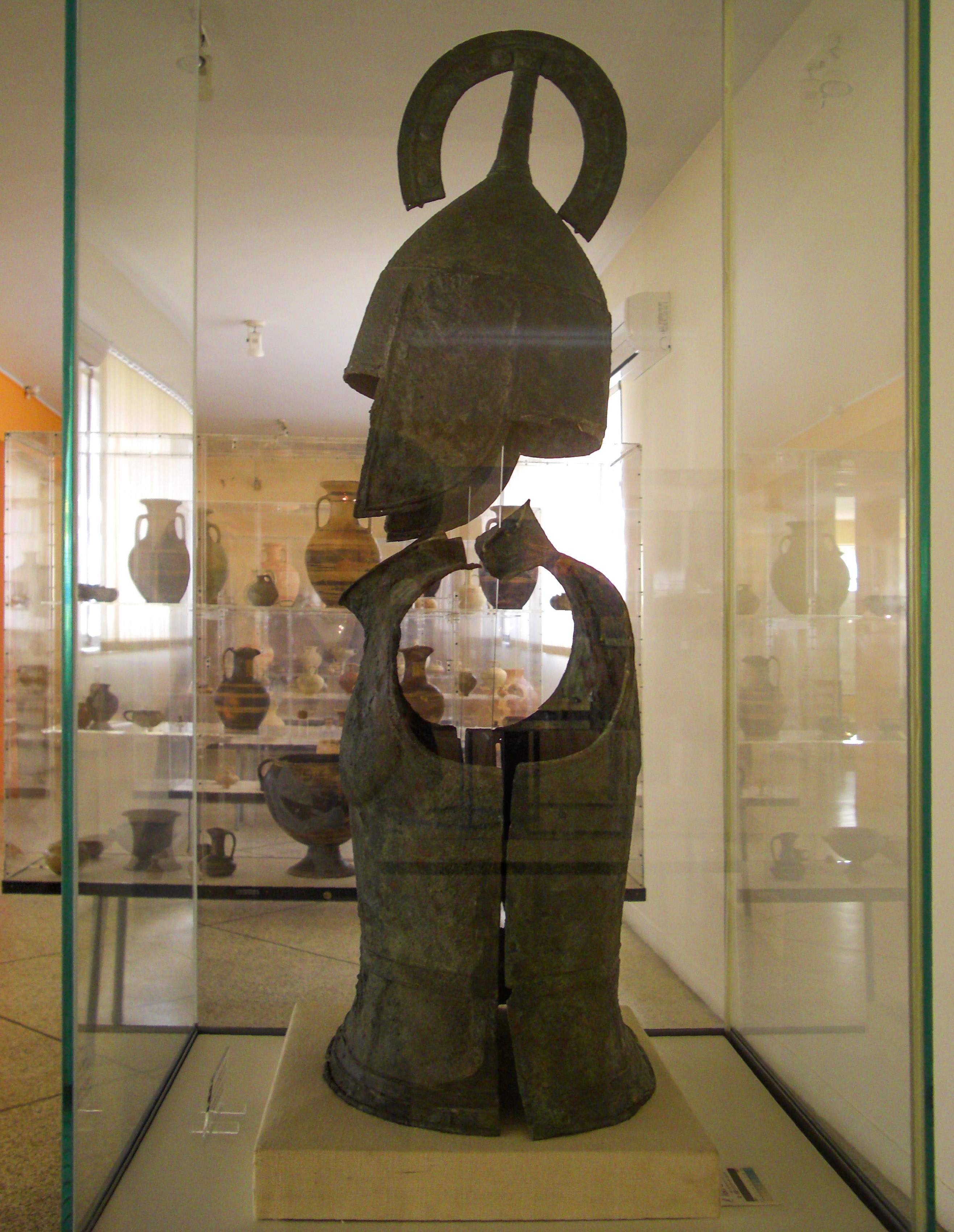 Hoplite armour at the Archeologic Museum of Argos in Greece.